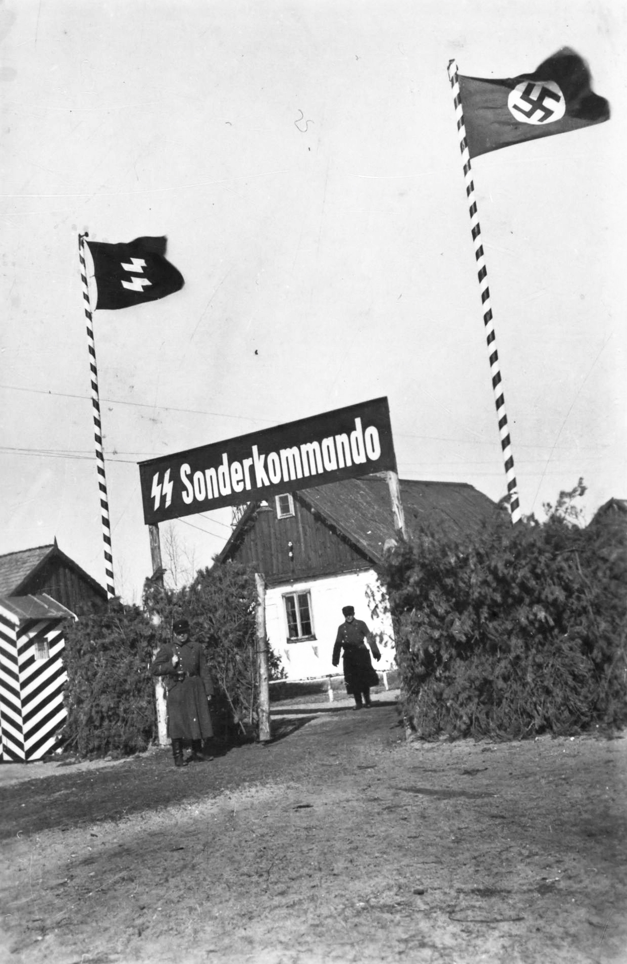 "The Sobibor camp gate in the spring of 1943. Jews from the region were driven through the gate into the death camp on foot, by truck or horse-drawn cart. The train track led through a separate entrance to the right onto the site. The pine branches, braided into the fence to make it difficult to see in from the outside, are clearly identifiable."